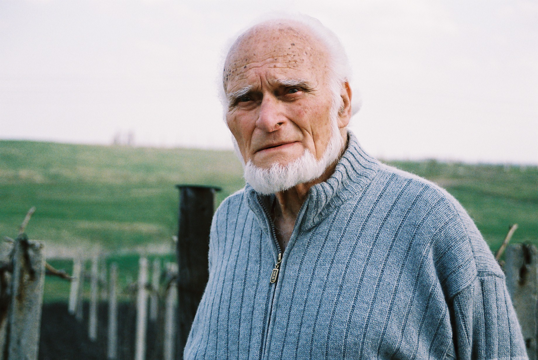 Tenyo Jelev - bulgarian painter